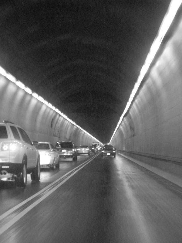 View from inside the Liberty Tunnels